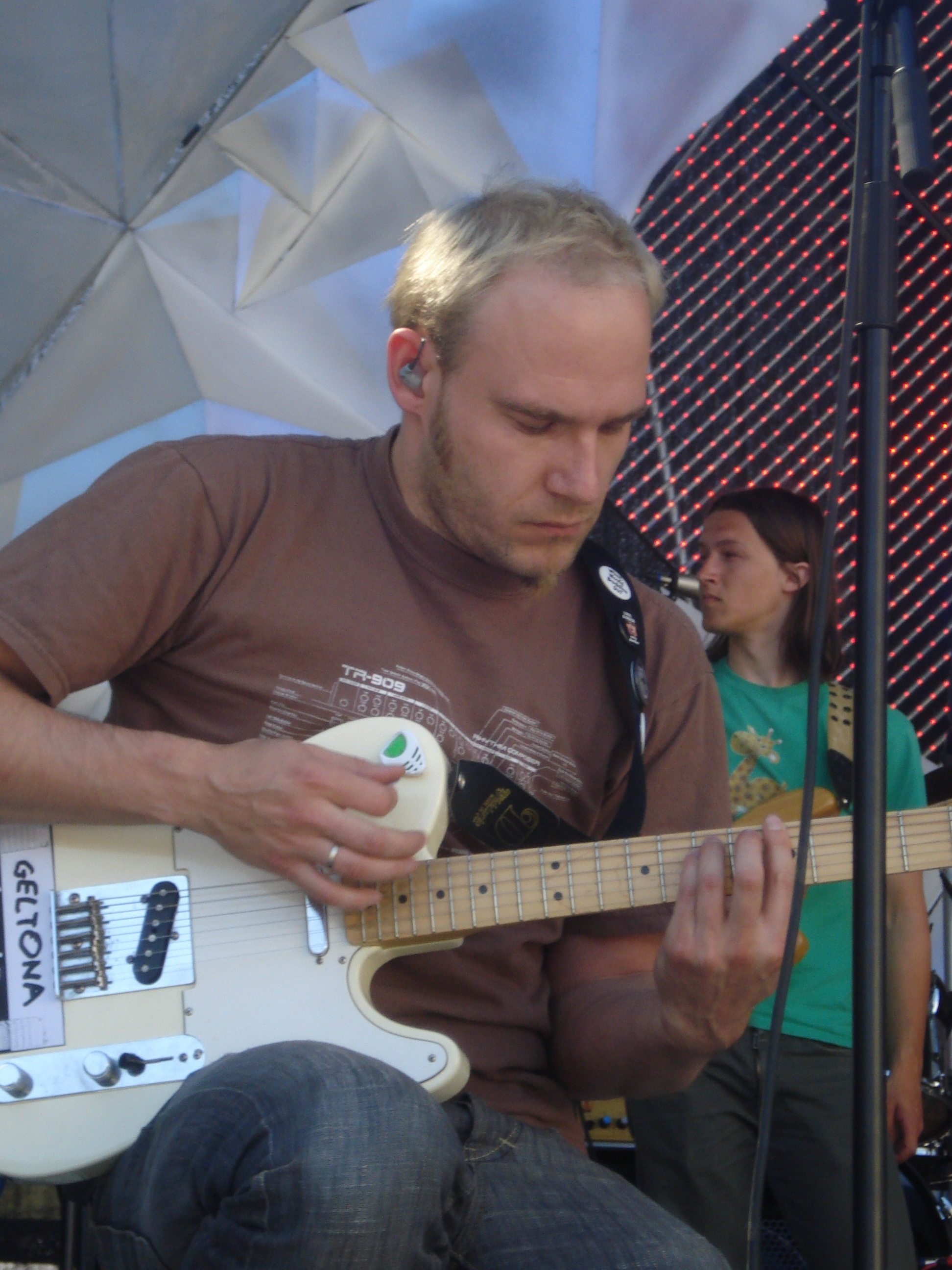 Eimantas Belickas, Musician from Lithuania